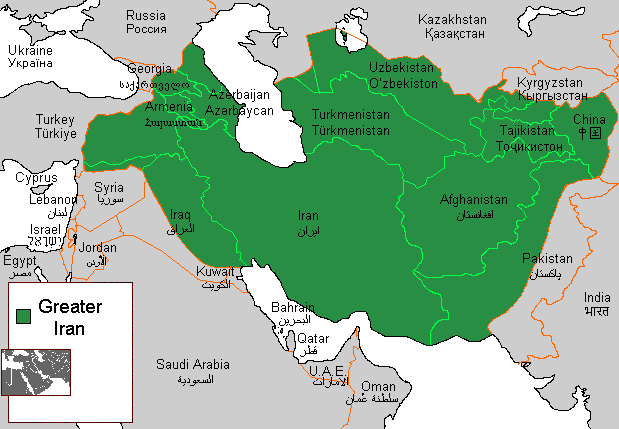 Color-corrected PNG version of File:Greatesiranmap.gif, which in turn was based on File:Greater Iran.gif.